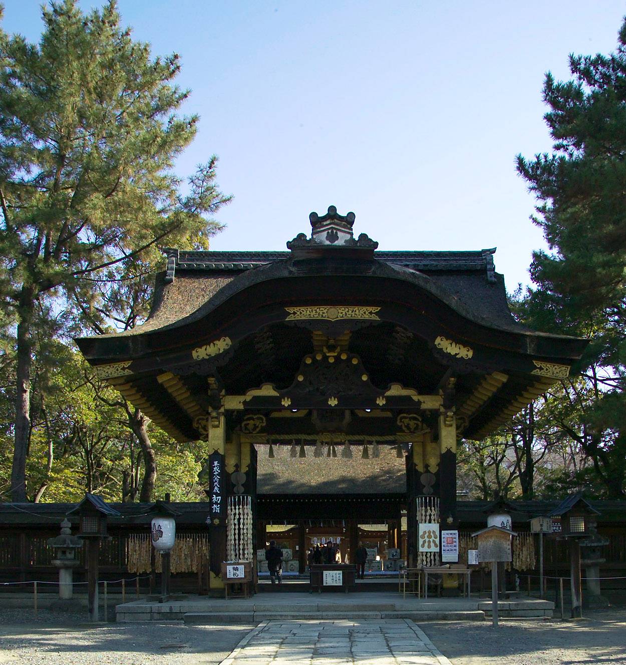 Karamon, or Chinese Gate, at Toyokuni Shrine, Kyoto, Japan. National Treasure. Said to have been moved from Fushimi Castle. I took this photo and contribute my rights in the file to the public domain; individuals and organizations retain rights to images in the file.